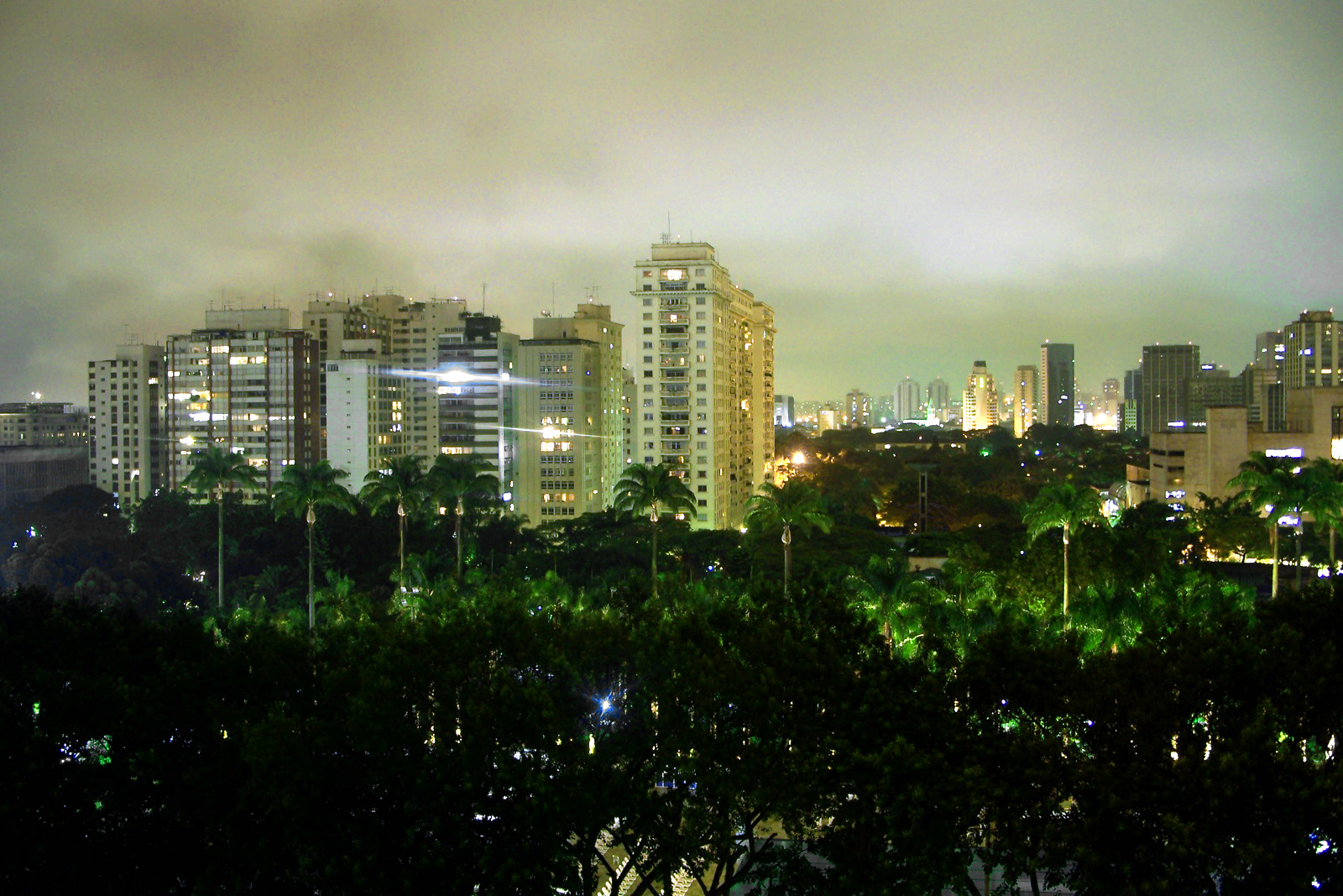 Esporte Clube Pinheiros' green area, with Angelina Maffei Vita Street right behind it.